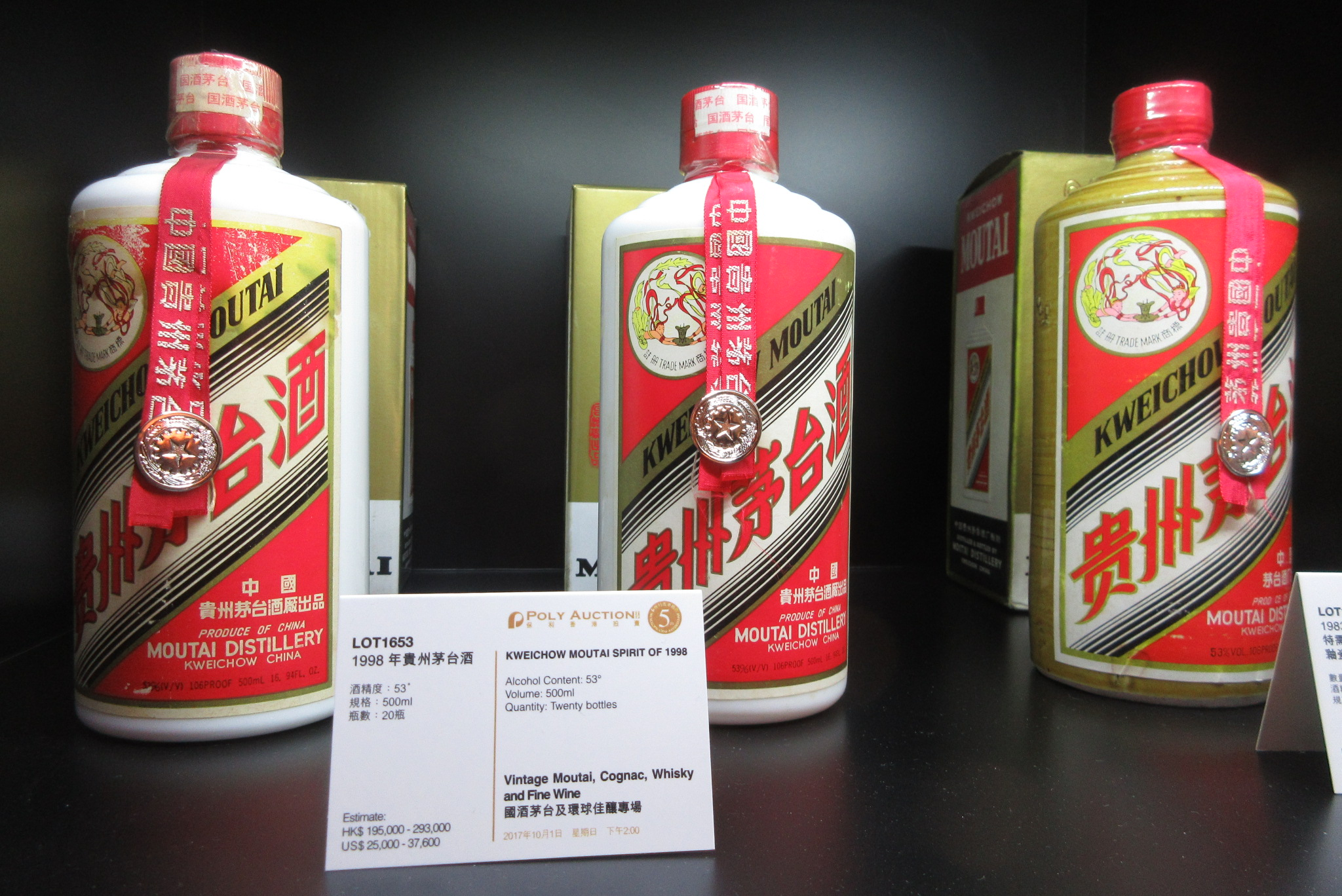 HK Wan Chai North 君悅酒店 Grand Hyatt Hotel 保利集團 Poly Auction Preview exhibition in September 2017